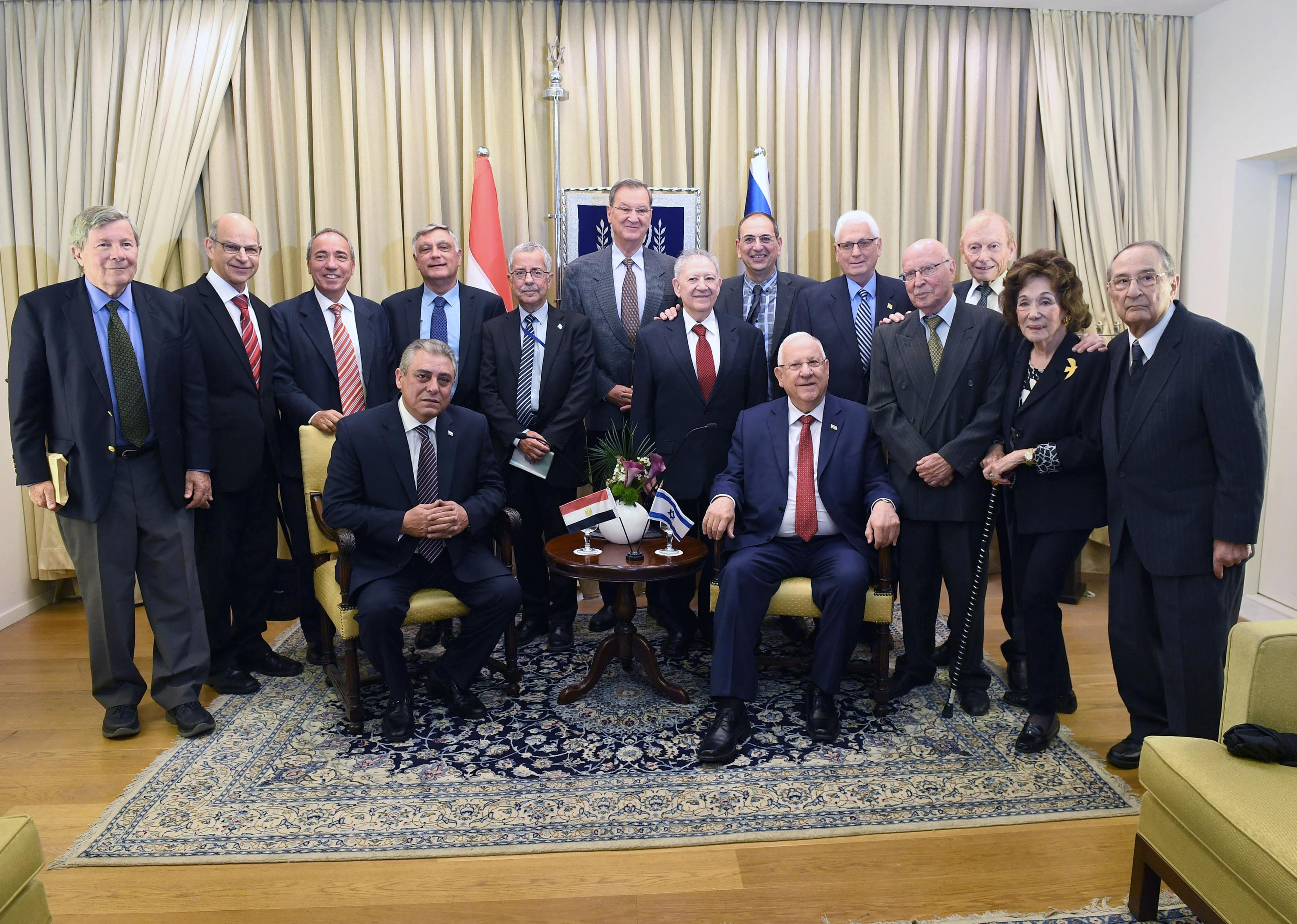 The President of Israel Reuven Rivlin and his wife are hosting the Ambassador of Egypt to Israel at a festive occasion marking the 40th anniversary of Sadat's visit. Wednesday, November 22, 2017. Photo Credit: Mark Neyman / GPO.